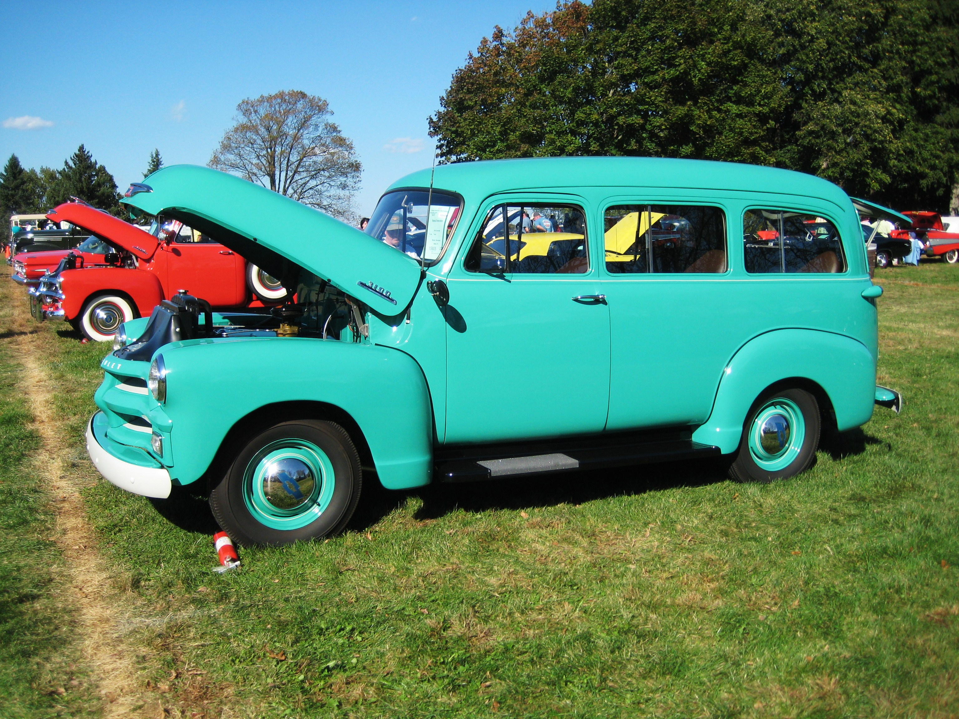 A 1954 Chevrolet Suburban seen on the last day of the Fall Meet of the AACA in Hershey, Pennsylvania, October 2010.